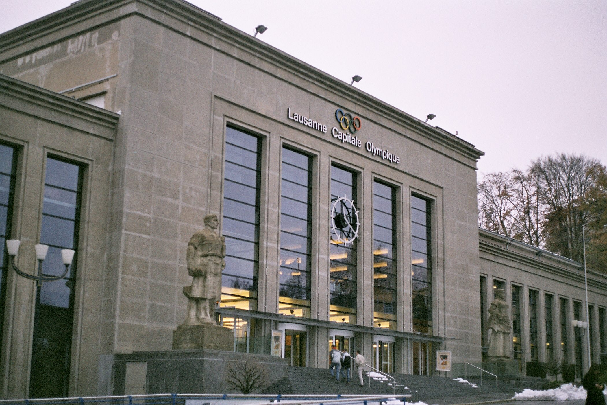 Entrance of the Palais de Beaulieu (Lausanne), under the first snow of winter 2005. The two statues of Casimir Raymond installed in 1954 represent crafts and agriculture.